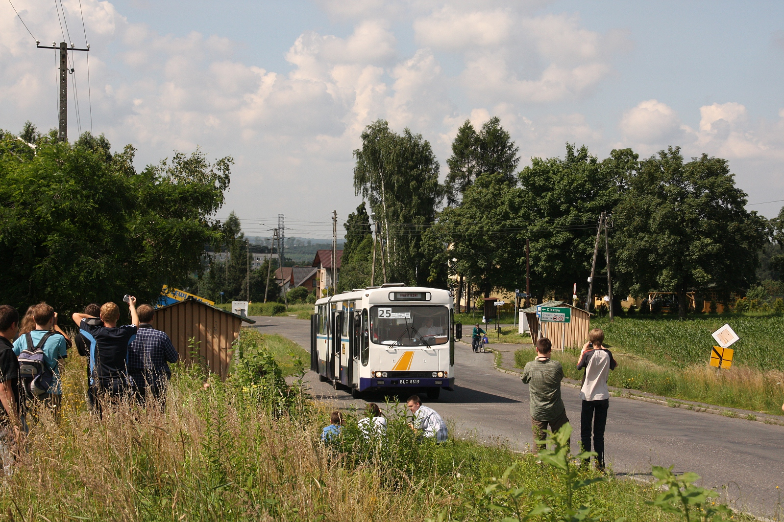 Bus spotters in action in Poland during special trip "25th anniversary of Ikarus-Zemun buses in Cieszyn".